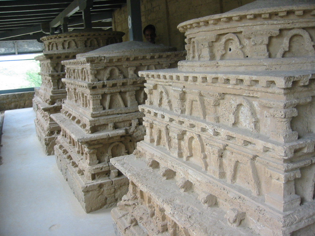 M. Robichaud, taken by author in July 2004 in Taxila, Pakistan.